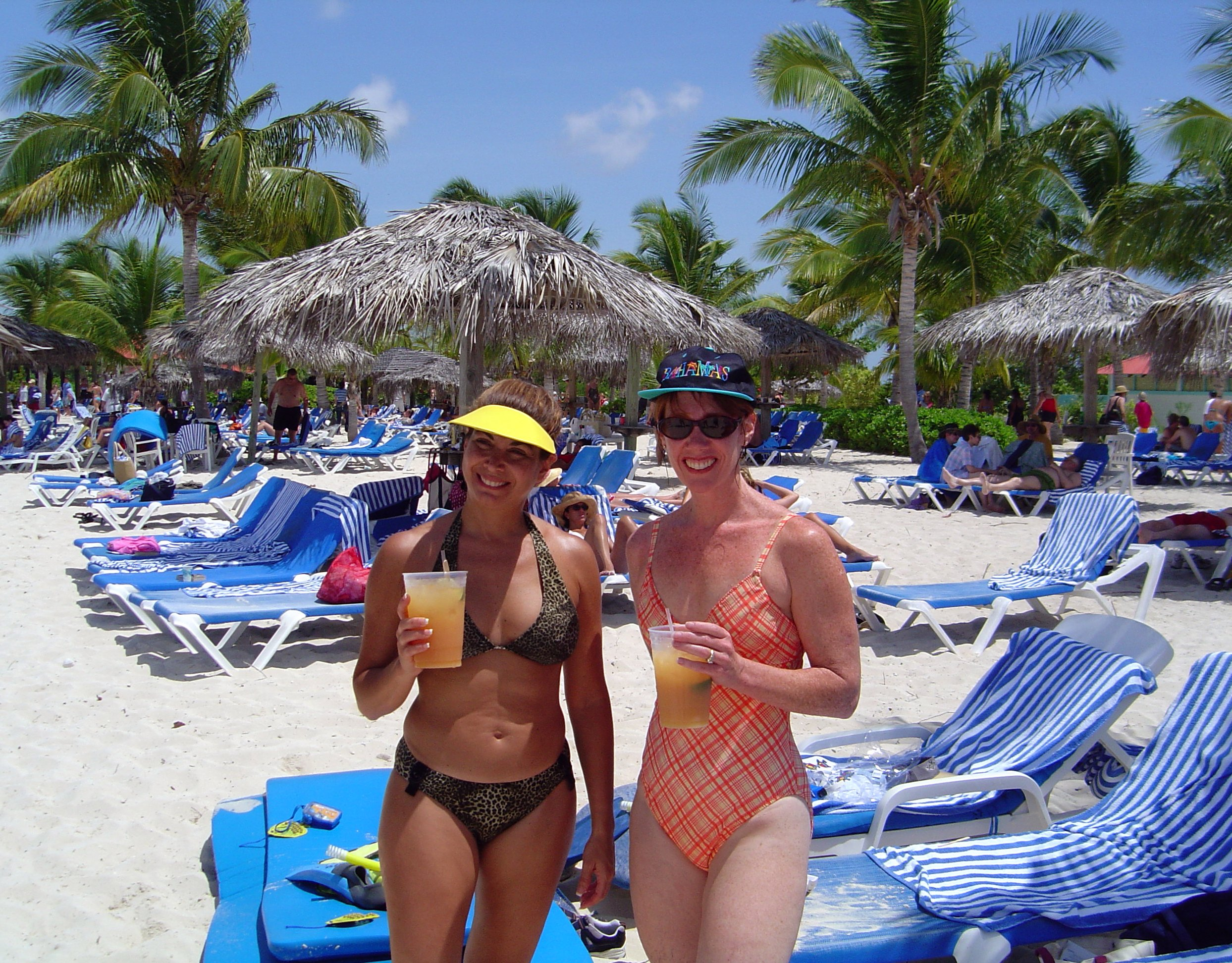 The Princess Cays tourist resort on Eleuthera island, Bahamas. My wife Lynda on the left with a good friend. Drink up, ladies.